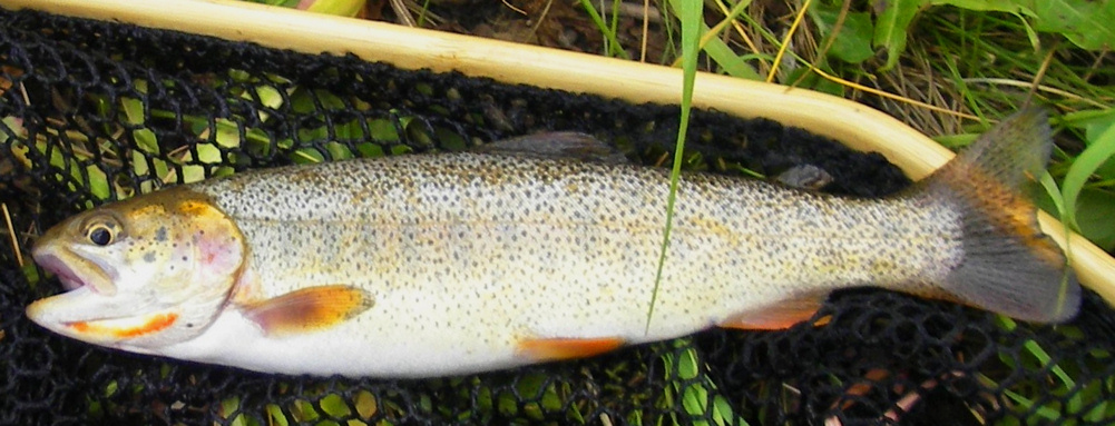 Photo Craig D Young